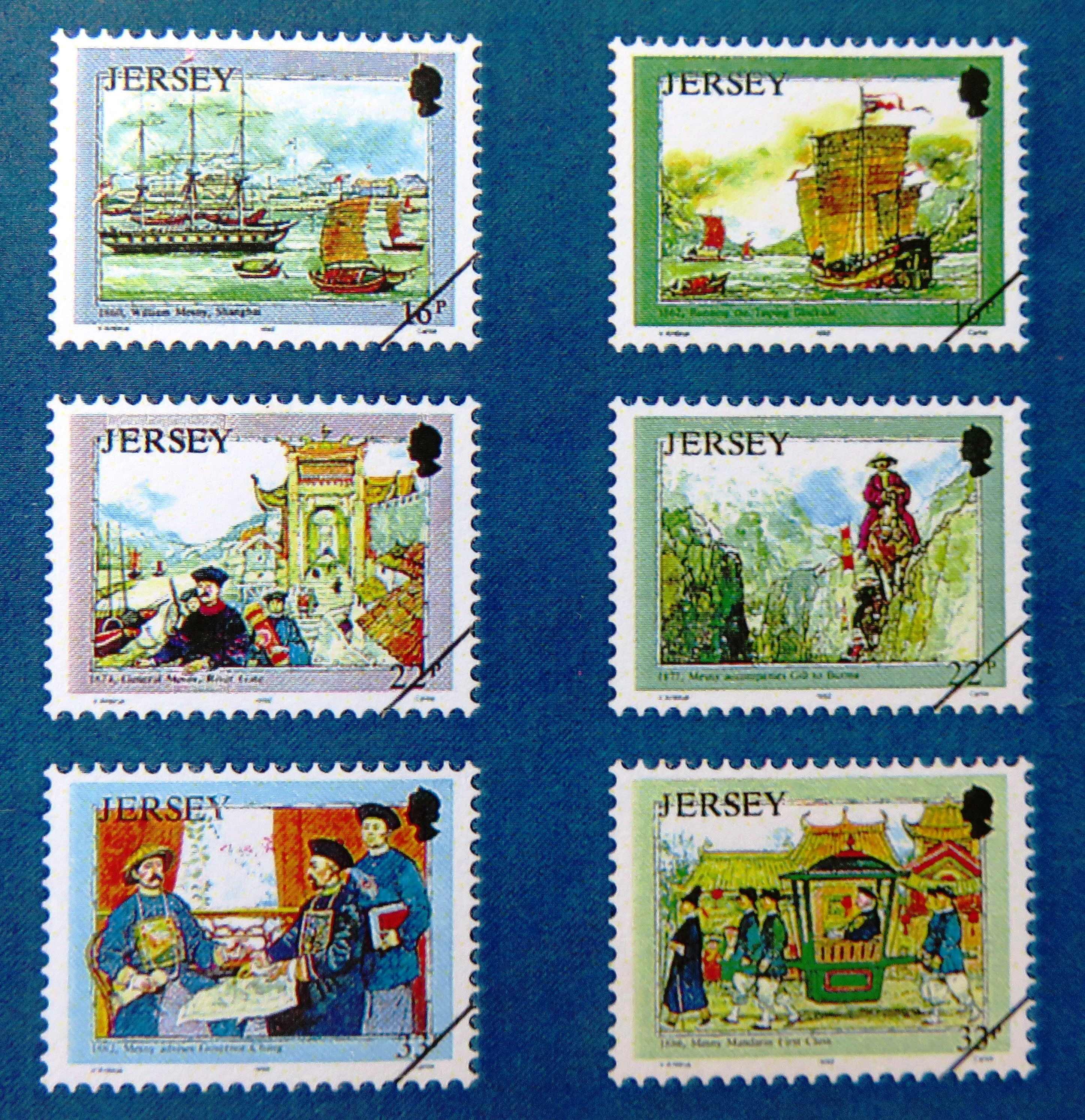 These commemorative stamps were produced in 1992 by the States of jersey to commemorate the 150th anniversary of the birth of William Mesny.